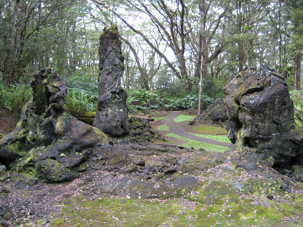 Lava Tree State Park, Kilauea, Hawaii, United States